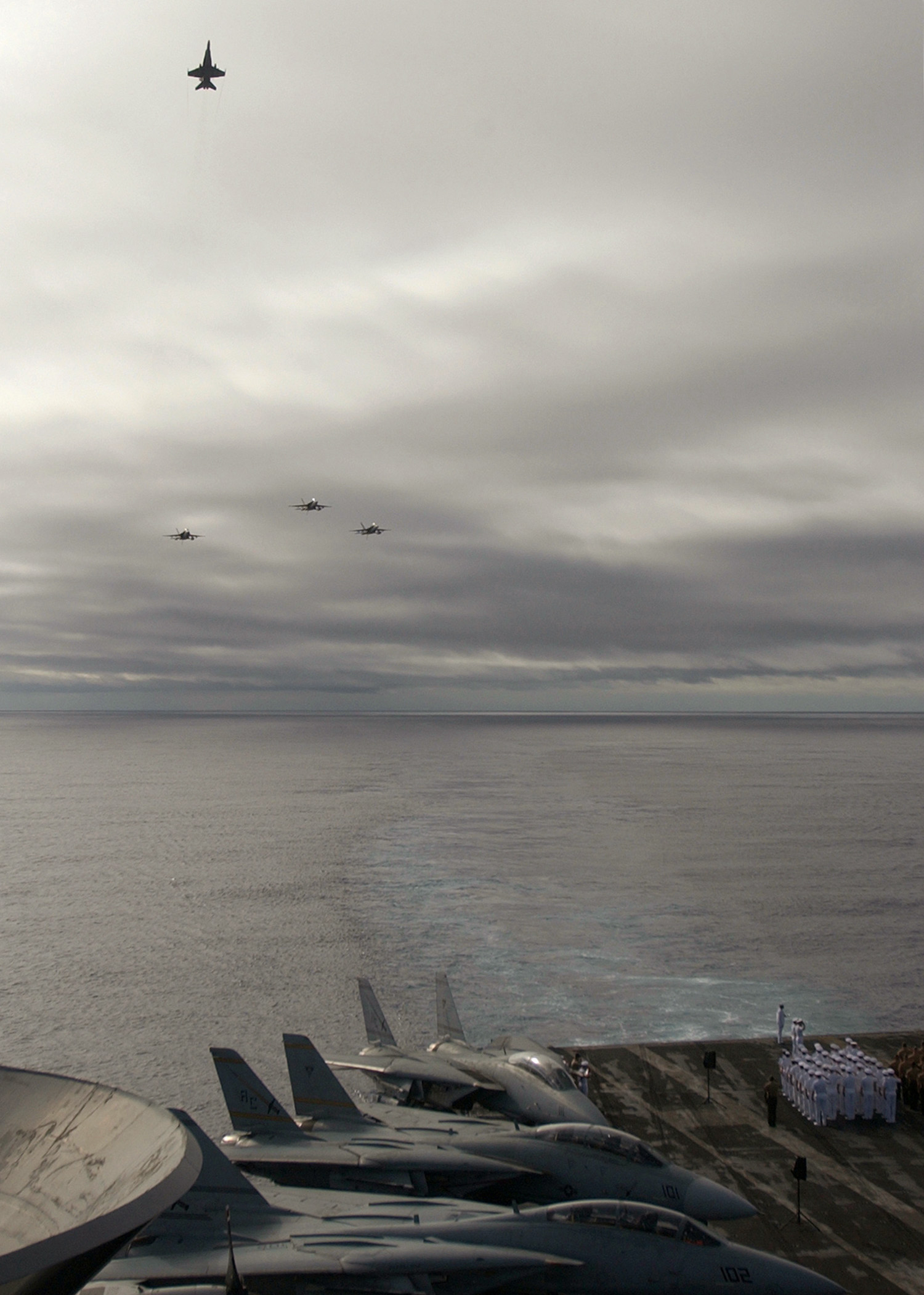 Pilots assigned to Carrier Air Wing Three (CVW-3) perform a Missing Man Flyover formation, above USS Harry S. Truman (CVN 75), during a wreath laying ceremony held on the flight deck in memory of Capt. Franklin Hooks II, assigned to the “Silver Eagles” of Marine Fighter-Attack squadron One One Five (VMFA-115). Hooks died when his F/A-18 Hornet jet crashed while conducting exercises off the aircraft carrier USS Harry S. Truman near the Azores Islands on June 26. Hooks began his military career as an Electronics Technician when he joined the Navy in 1990. In 1993 he was appointed to the U.S. Naval Academy, from which he graduated in 1997. Truman (CVN 75) is participating in Majestic Eagle, a multinational exercise being conducted off the coast of Morocco. The exercise demonstrates the combined force capabilities and quick response times of the participating naval, air, undersea and surface warfare groups. Countries involved in the U.S.-led exercise include the United Kingdom, Morocco, France, Italy, Portugal, Spain, and Turkey. Truman's participation in Majestic Eagle is part of her scheduled deployment supporting the Navy's new fleet response plan (FRP) Summer Pulse 2004, the simultaneous deployment of seven carrier strike groups (CSGs), demonstrating the ability of the Navy to provide credible combat across the globe, in five theaters with other U.S., allied, and coalition military forces.